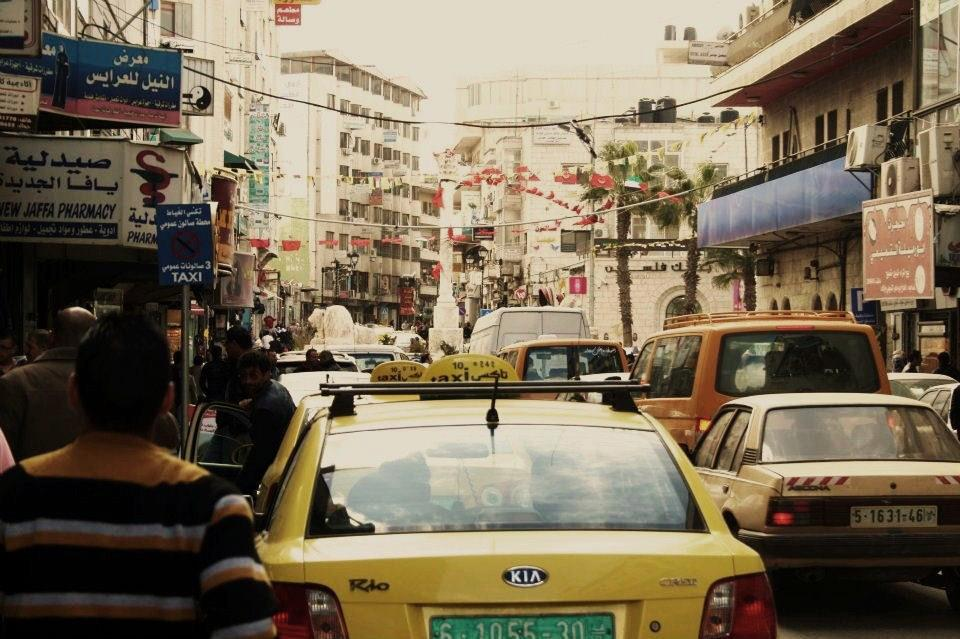 Nahda Street leading to Al-Manara Square